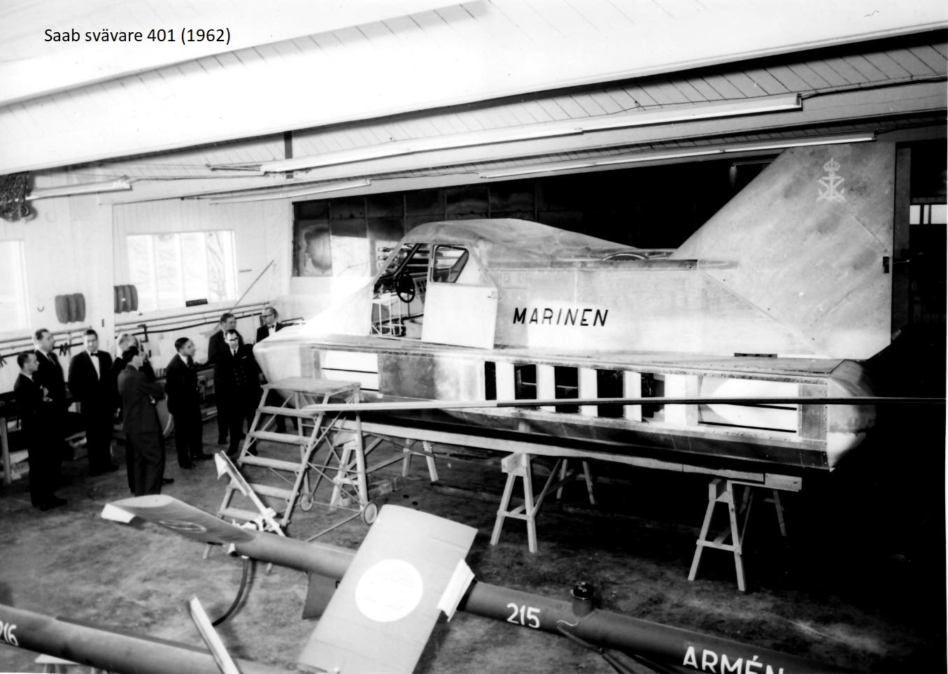 Hoovercraft Saab 401